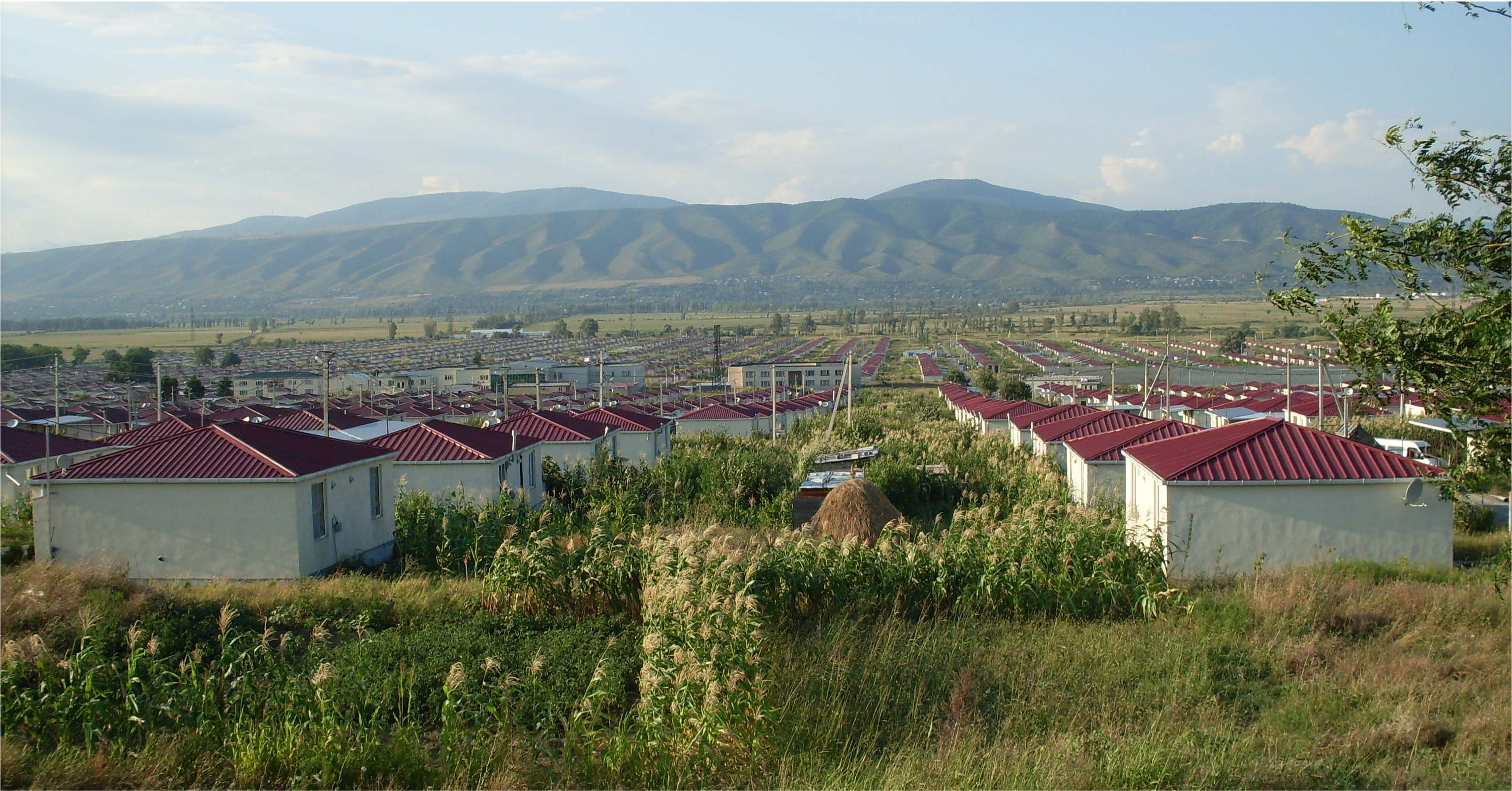 Tserovani, the village of refugees from 2008 Russo-Georgian war.